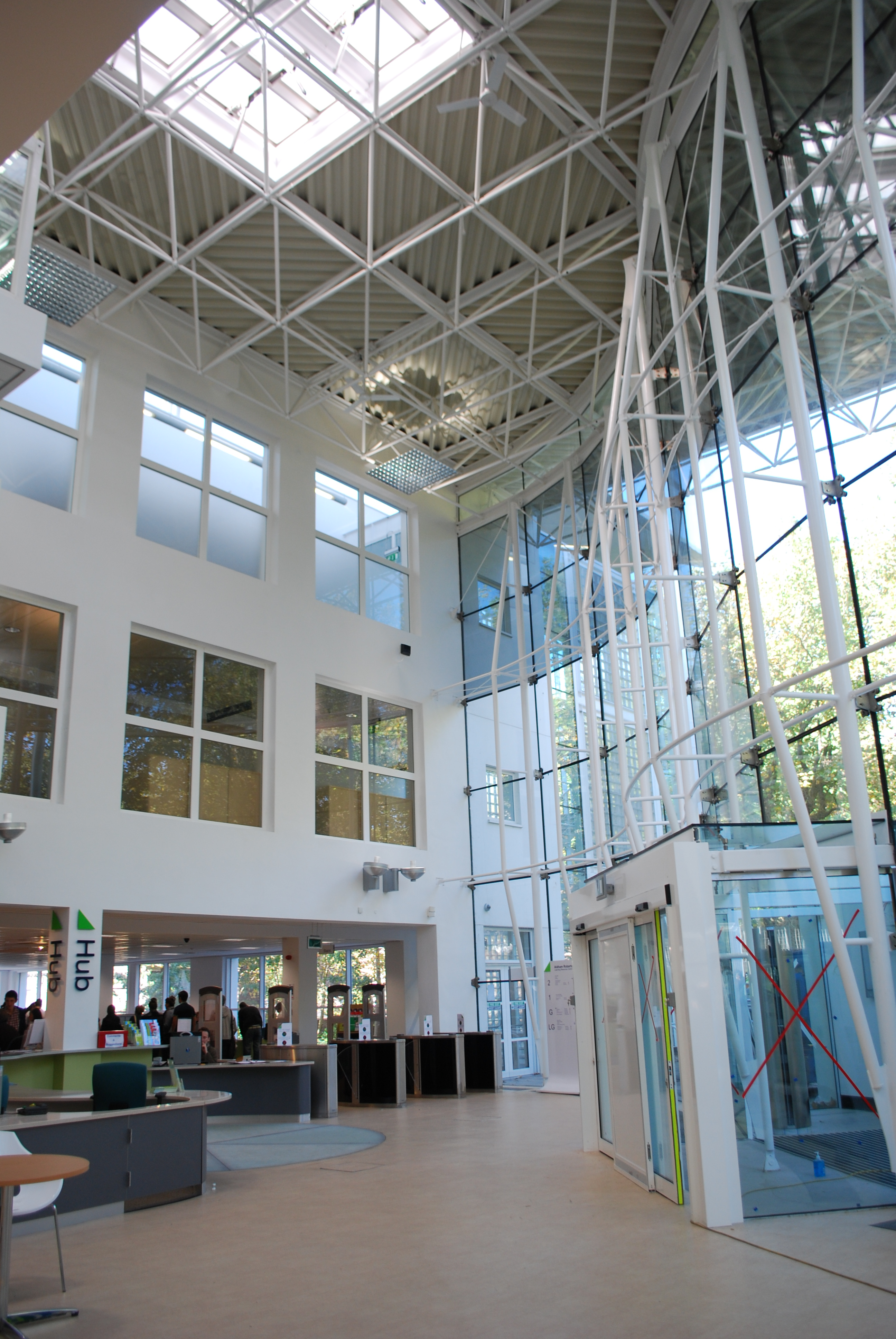 Liverpool John Moores University Aldham Roberts Library